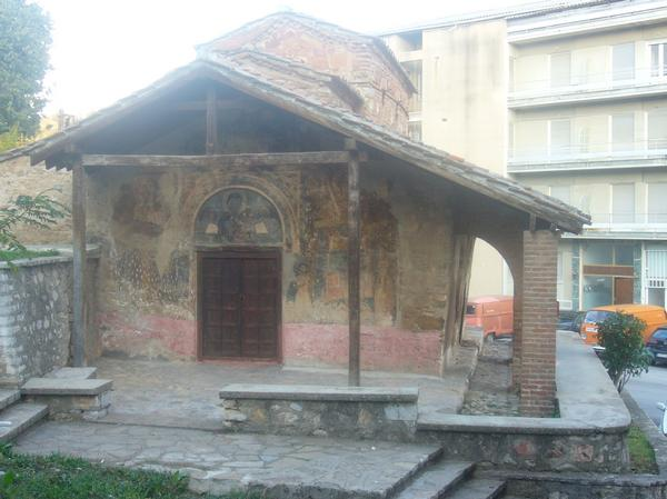 Church of "St.Archangels of Mitropolia" Kastoria, Greece